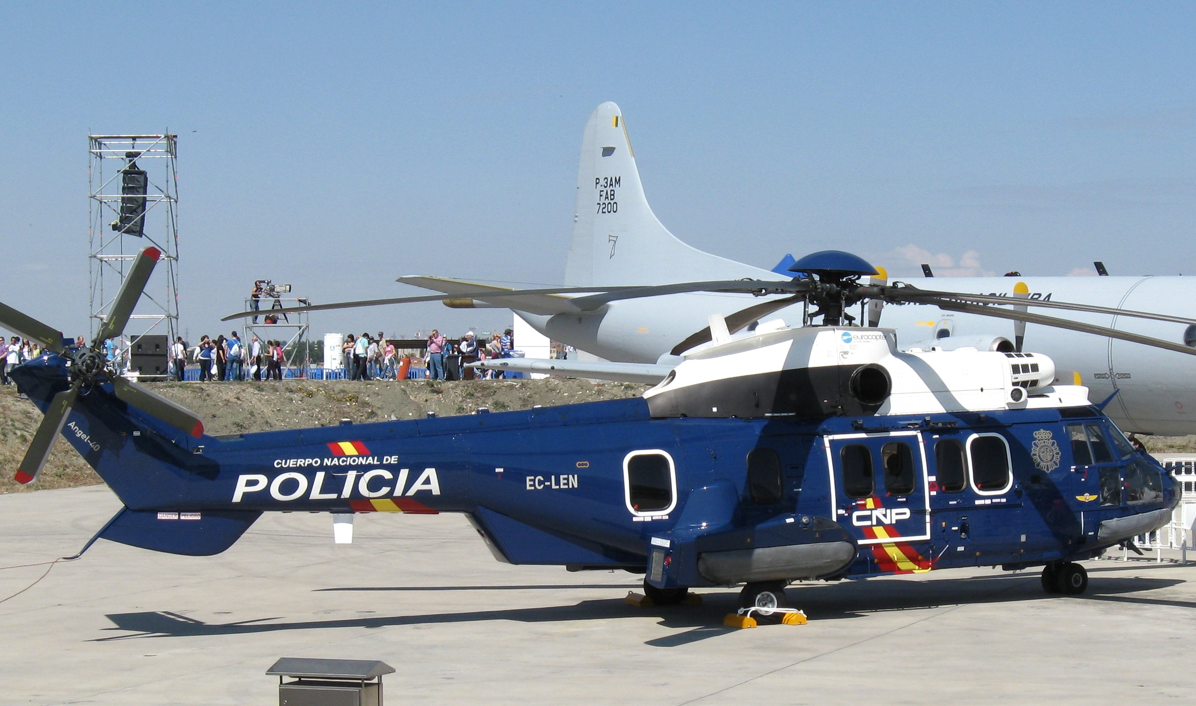 At Madrid-Getafe Airport